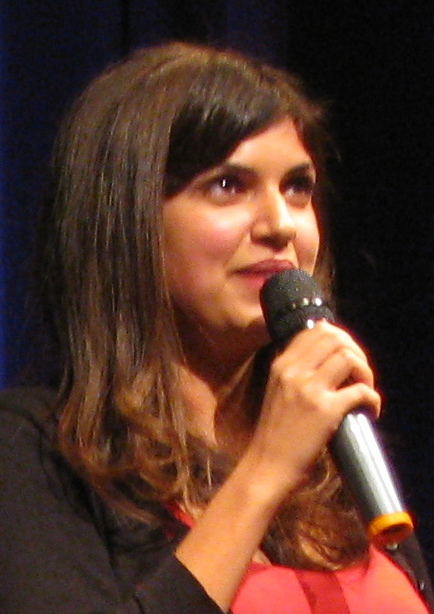 Ariane Sherine 2.jpg